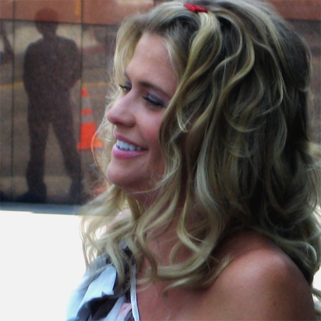 Kristy Swanson signing autographs outside the Directors Guild of America on 7920 W. Sunset Boulevard, Hollywood, CA. Kristy was attending the premier of the animated film Fly Me to the Moon on August 5, 2008. Photograph by Ian O'Neill, August 5, 2008